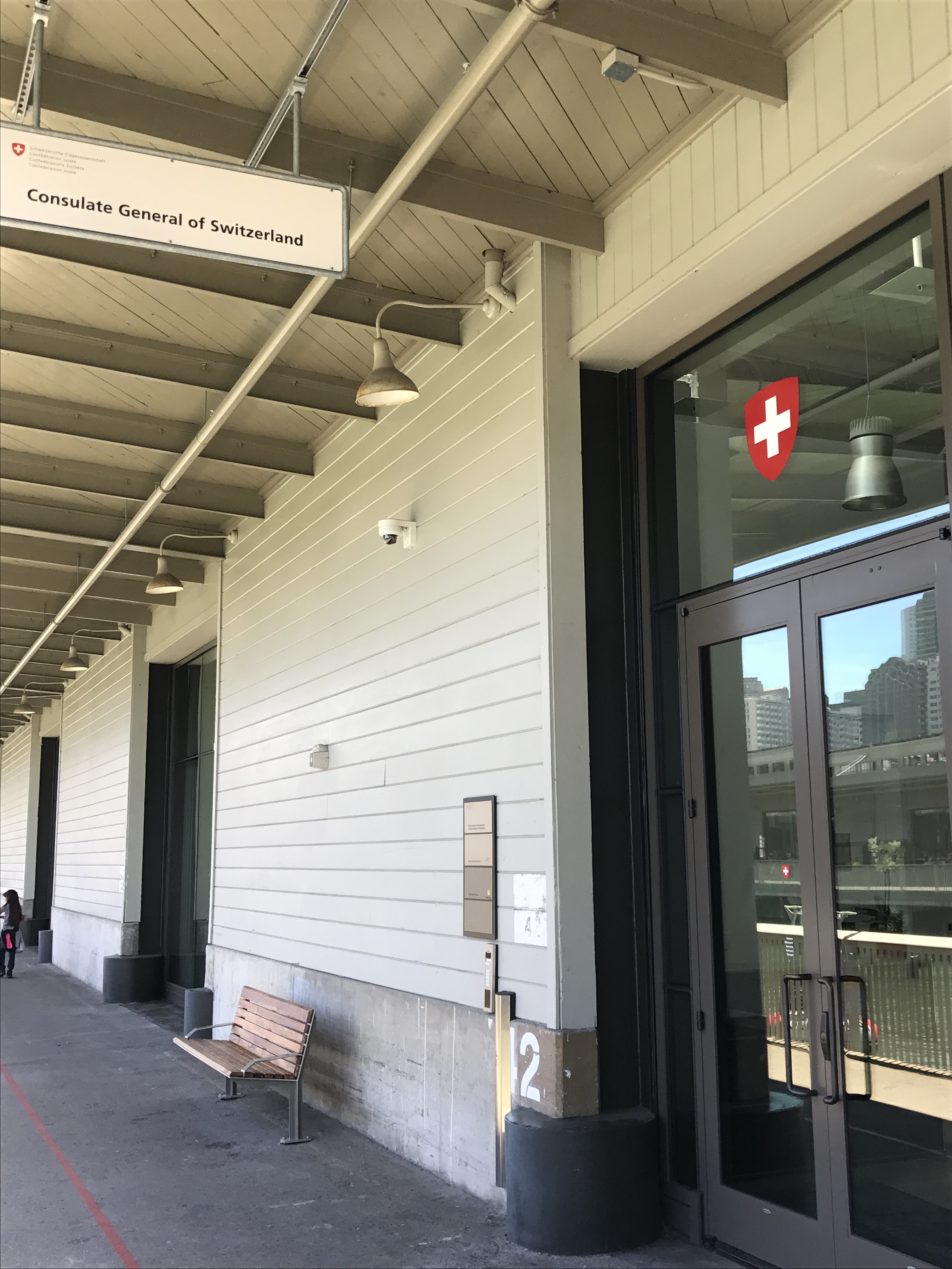 Photo of the consulate-general of Switzerland in San Francisco, California